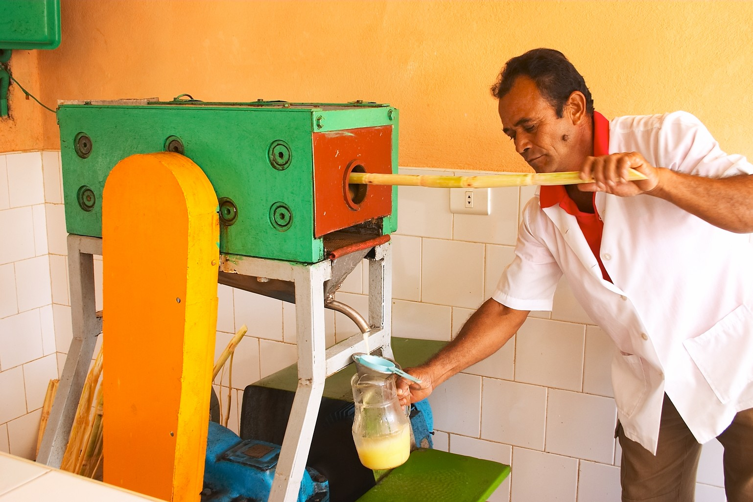 Old sugar mill and steam locomotives museum in the José Smith Comas, a Cuban village of the municipality of Cárdenasy, Matanzas Province